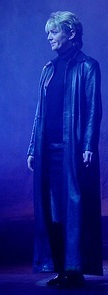 This is a retouched picture, which means that it has been digitally altered from its original version. Modifications: cropped and flipped. The original can be viewed here: Steadicam operator filming yvette fielding lo res.jpg: . Modifications made by StAnselm.